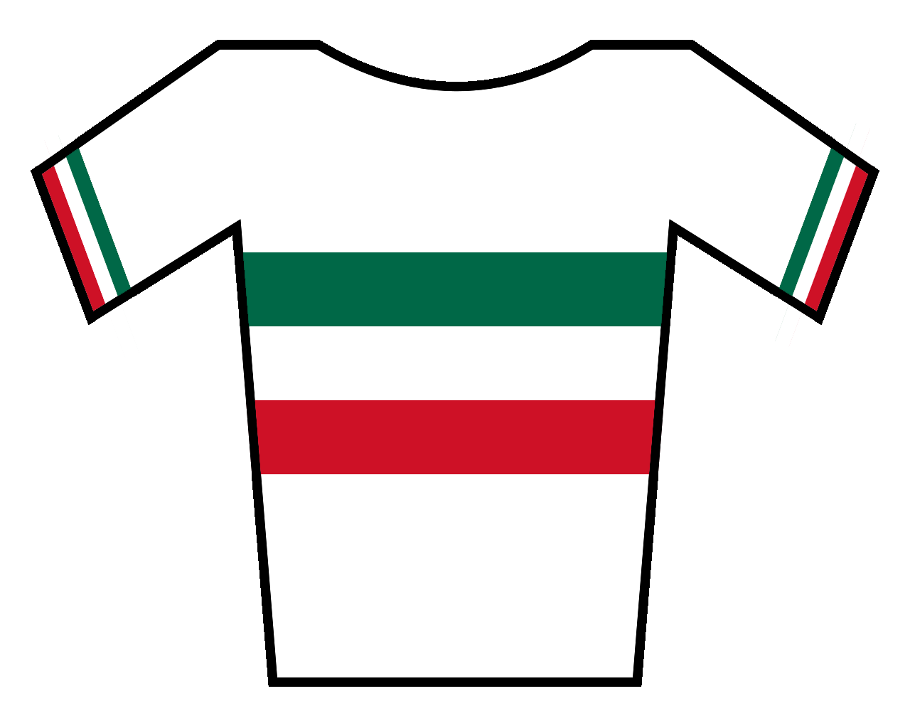 Created by me.